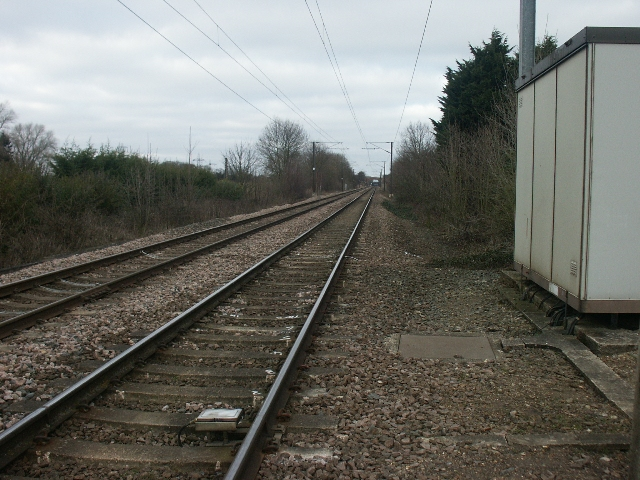 Site of Swainsthorpe station. Looking north from the level crossing. The station is long gone, but the trains still flash by on their way from Norwich to London.